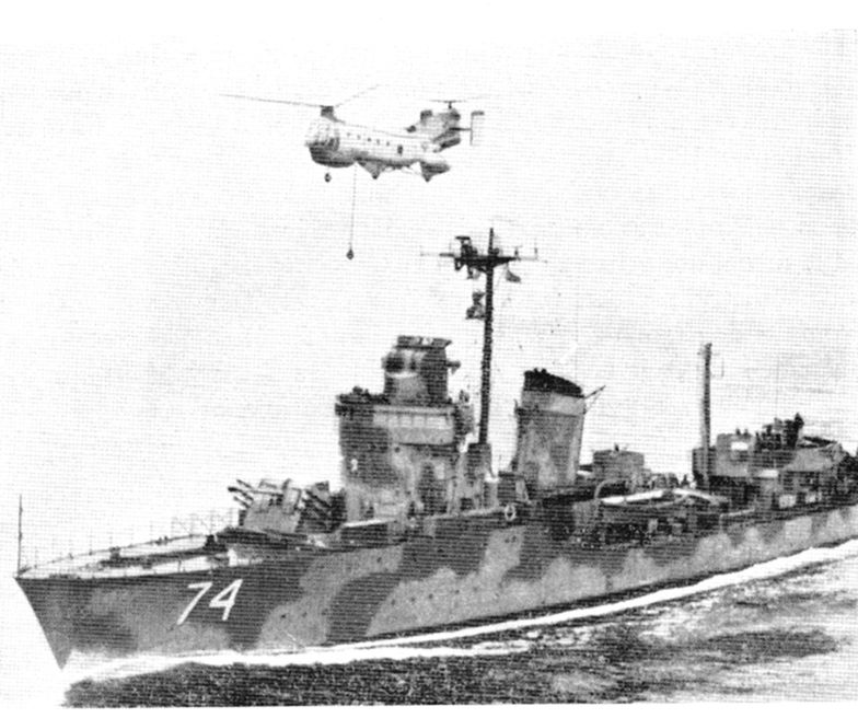 The Swedish frigate HMS Magne with ASW helicopter, Vertol 44.